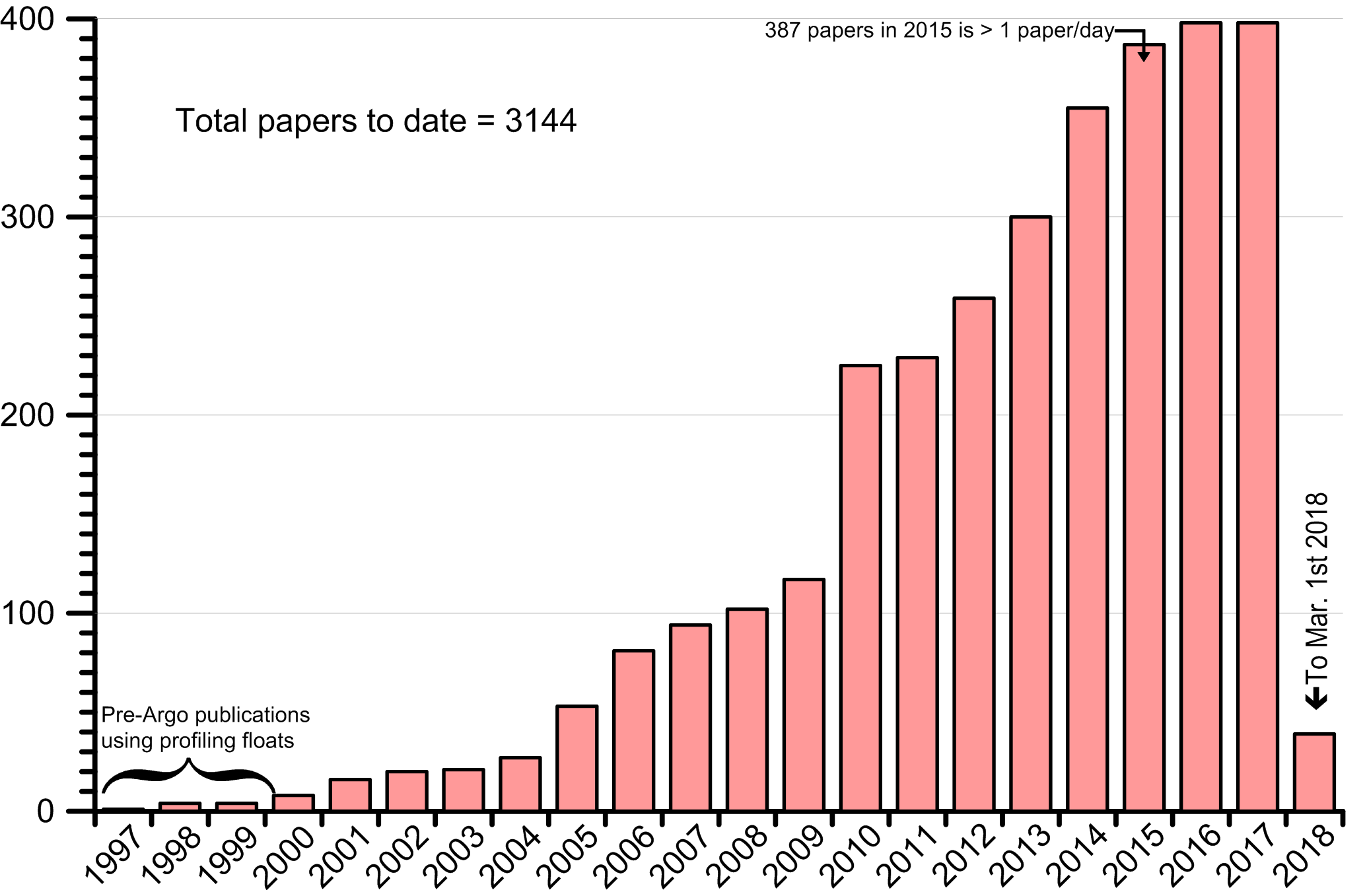 Papers published each year using Argo data